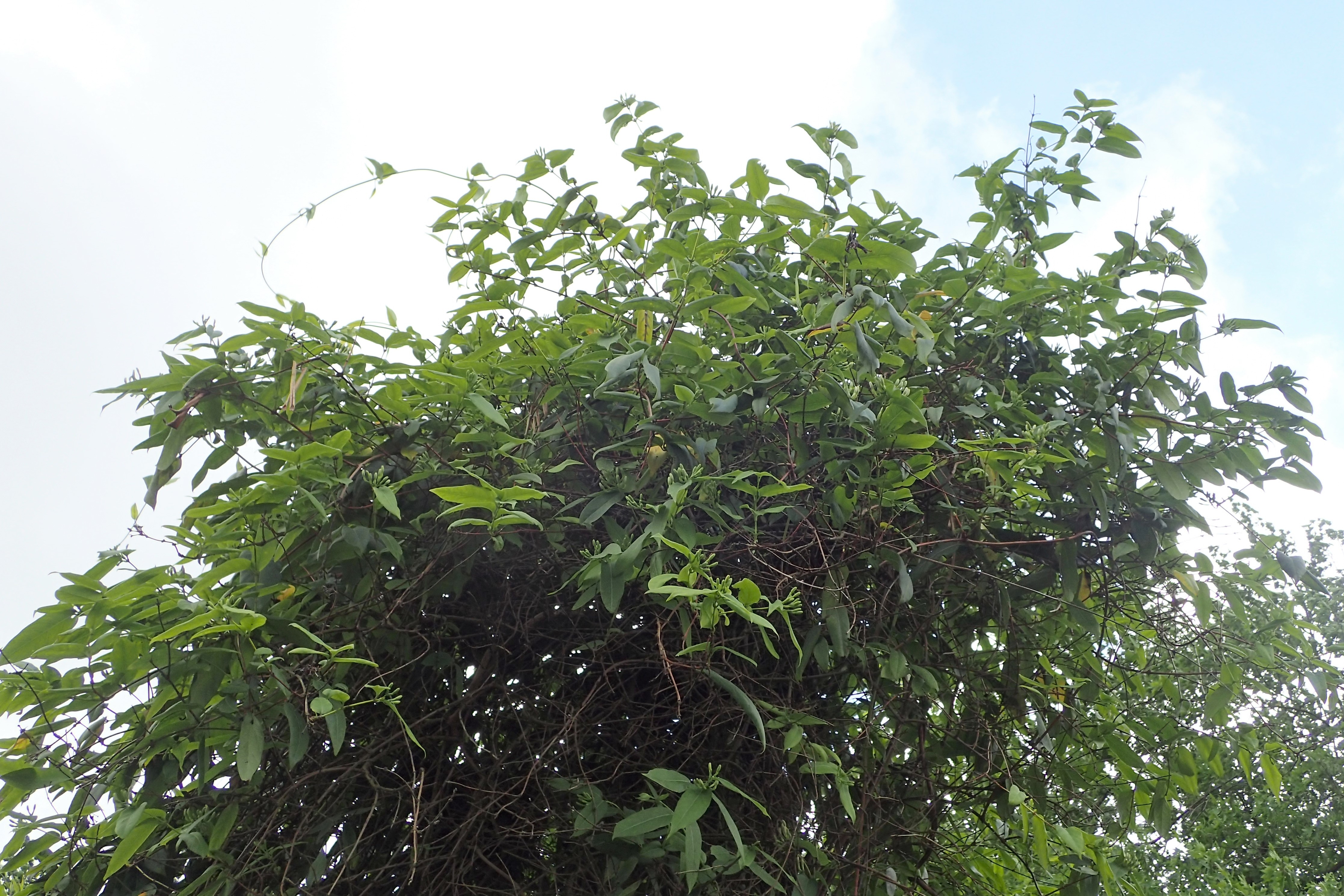 Lonicera acuminata in the Botanischer Garten, Berlin-Dahlem